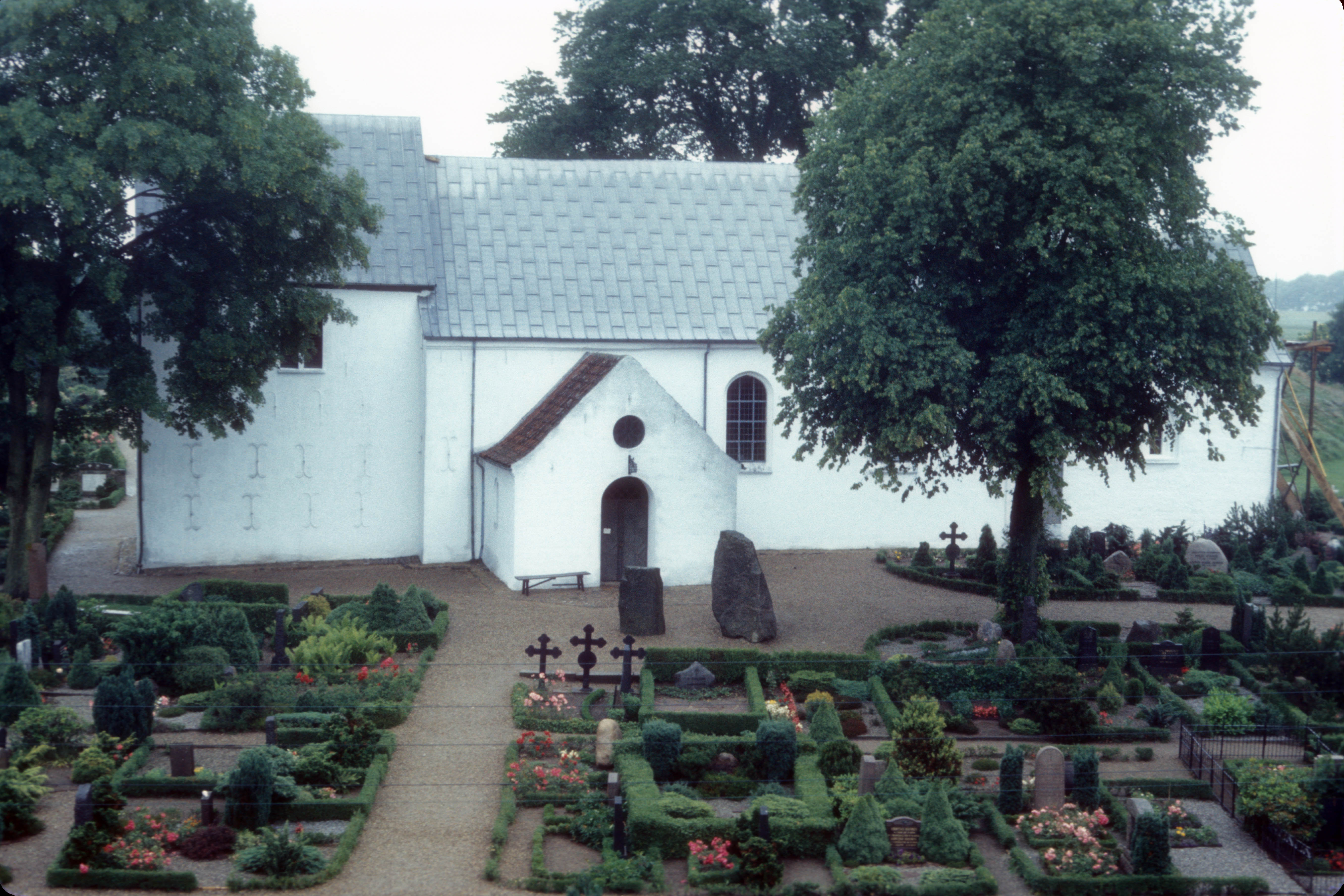 CHURCH AND RUNE STONES; NEAR THE JELLING STONES, GORM'S SON KING HARALD I OF DENMARK BUILT A WOODEN CHURCH (965), AND BENEATH IT RE-INTERRED (965–966) THE REMAINS OF HIS FATHER. BOTH THE STONES A ND THE CHURCH ARE WORLD HERITAGE SITES